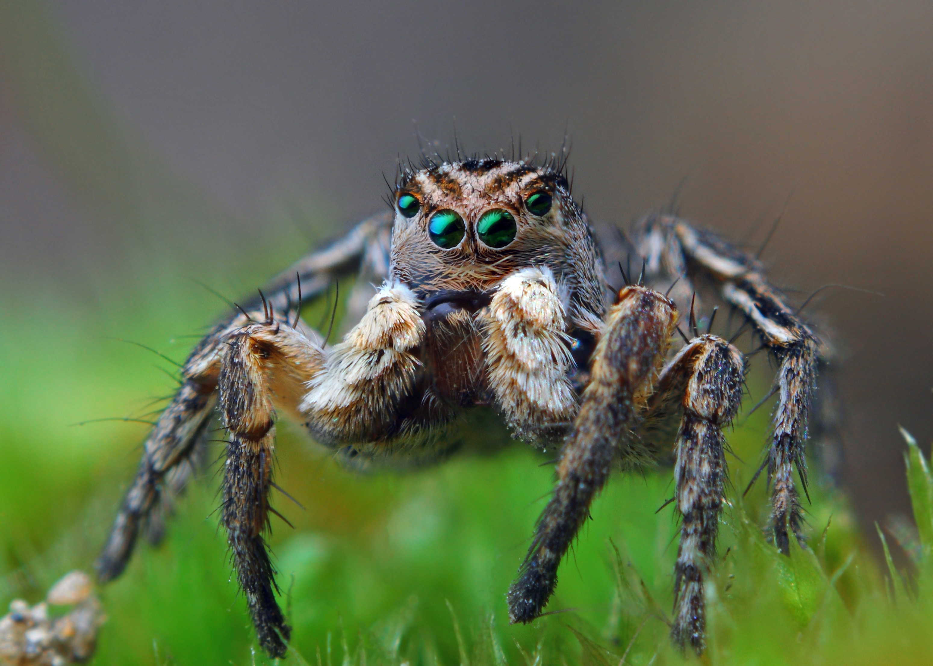 Aelurillus v-insignitus from Hungary.